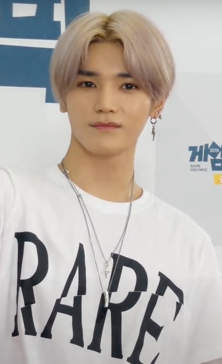 Lee Tae-yong Game Dolympic 2019